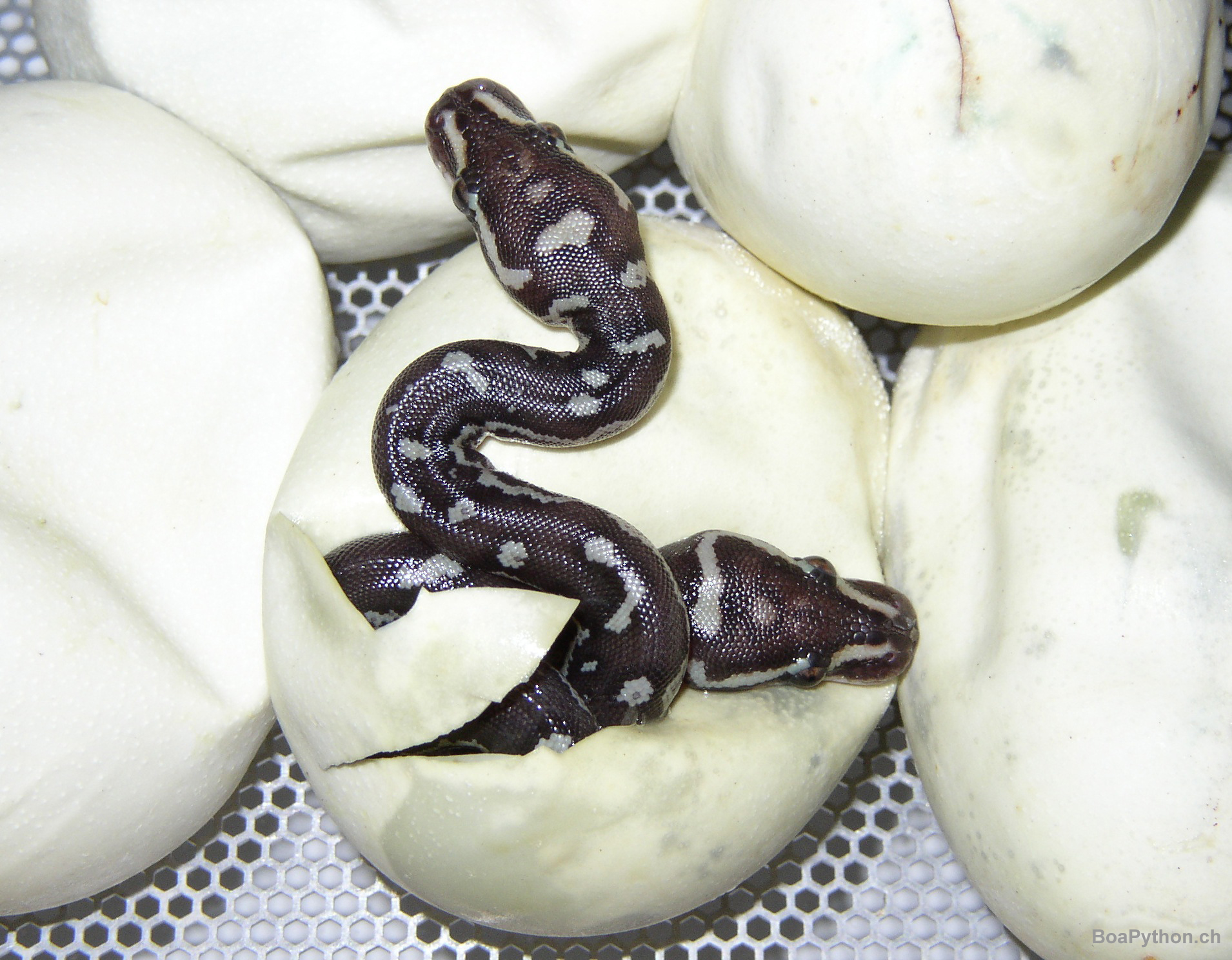 Twin Angolan Dwarf Pythons (Python anchietae) hatching. These specimen were bred in captivity. This picture is a donation of Markus Borer